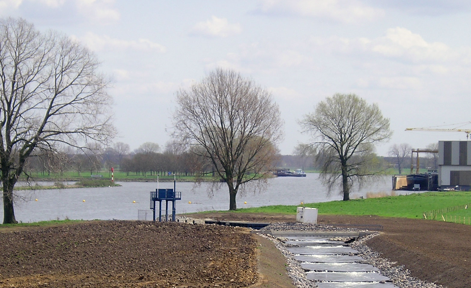 Fish ladder and shipyard, Grave, The Netherlands